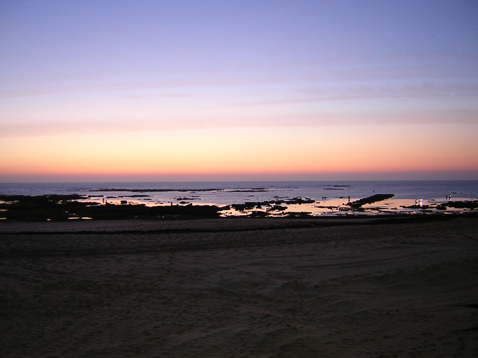 selfmade picture of the "cruz del mar"-beach in chipiona, spain